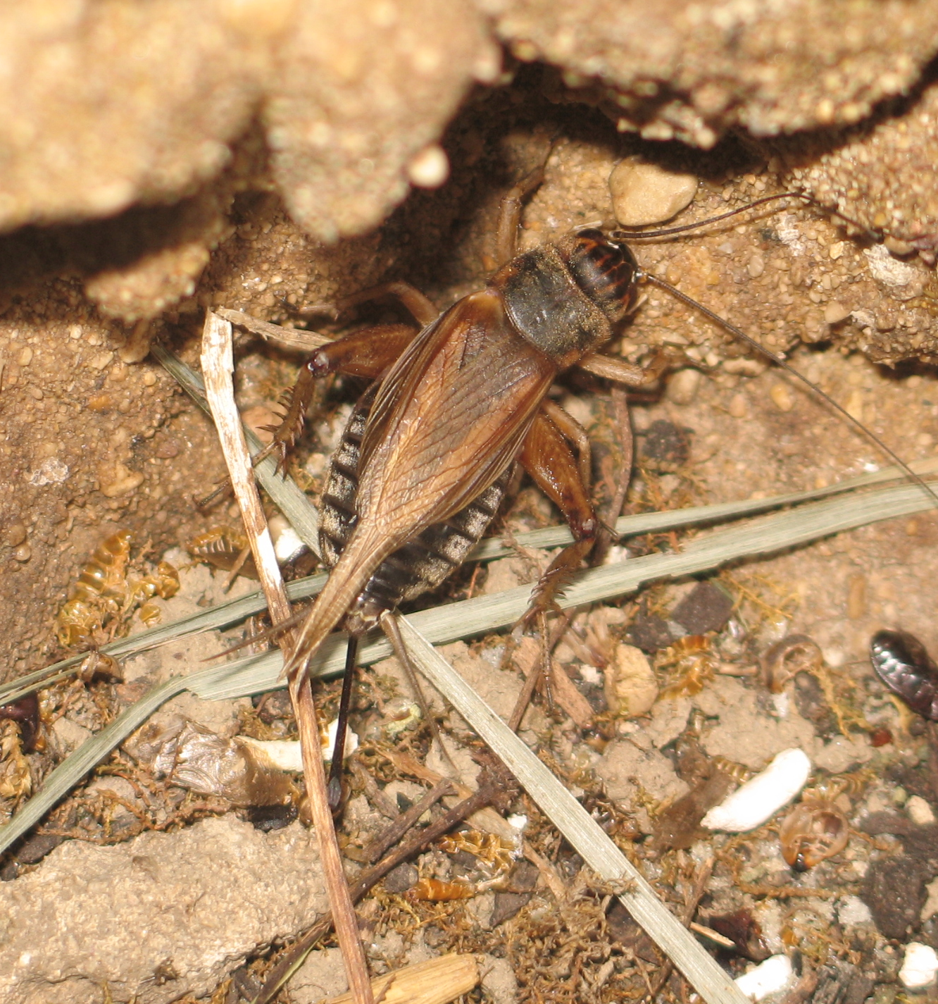 Female of cricket Acheta domestica